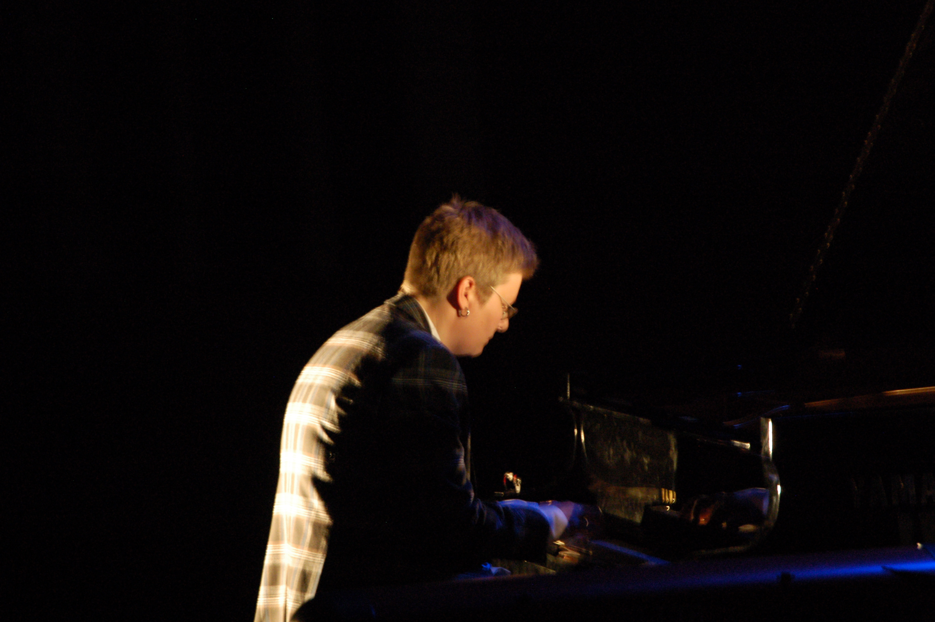 Maria Kannegaard at Kongsberg Jazz festival 2011